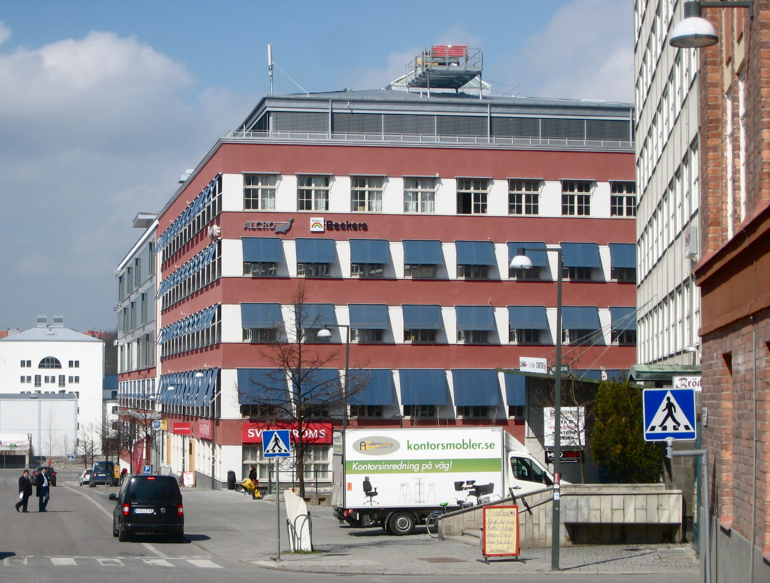 Alcro-Beckers huvudkontor i Mårtensdal. (Former Osterman Electric Co factory)